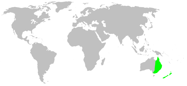 Gradungulidae habitat distribution, drawn after Platnick: World Spider Catalog 7.0. This is not a precise rendering of the distribution! If you have better information, please replace this map, or send me the info, and i will redraw it.